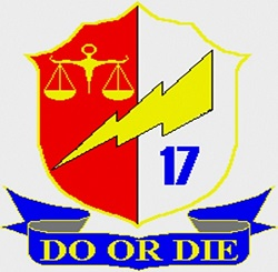 250 pixels